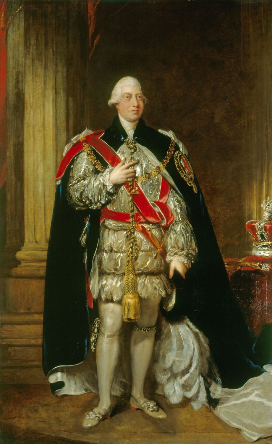 George III of the United Kingdom (1738-1820)